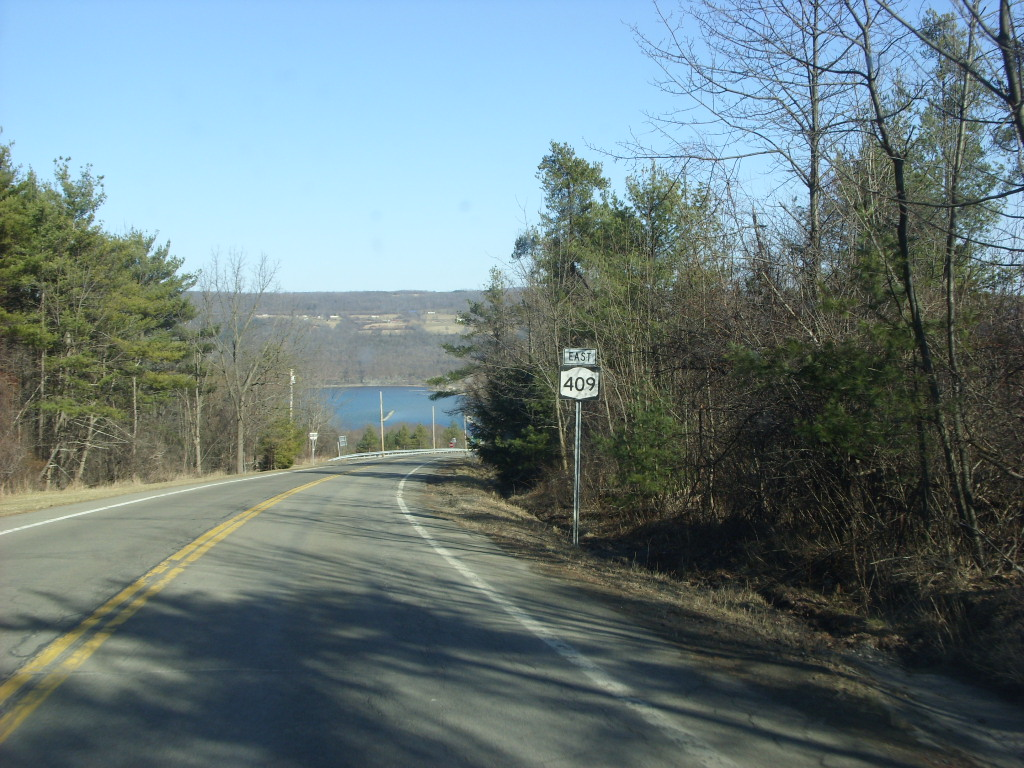 New York State Route 409 heading eastward through Watkins Glen, New York. The signage denoting the junction for Schuyler County Route 28 is visible behind the trees.